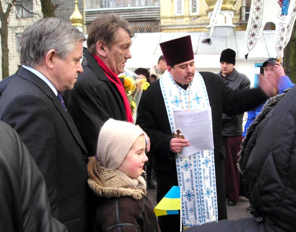 Viktor Yushchenko, the President of Ukraine, at a church ceremony in Kiev, Ukraine